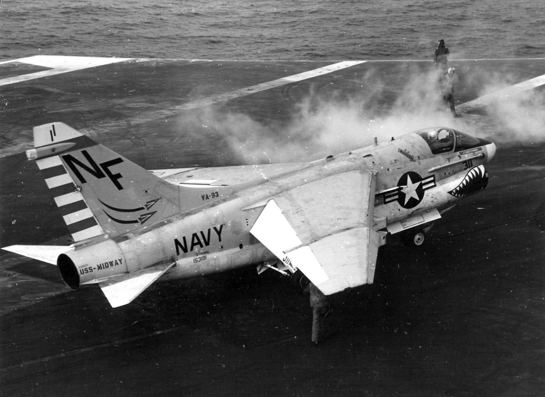 A U.S. Navy Ling-Temco-Vought A-7A-4b-CV Corsair II (BuNo 153191) of Attack Squadron VA-93 "Blue Blazers" moving into launch position on the flight deck of the aircraft carrier USS Midway (CVA-41). VA-93 was assigned to Carrier Air Wing 5 (CVW-5). This aircraft was later converted to an A-7P and sold to Portugal (as "FAP 15529").